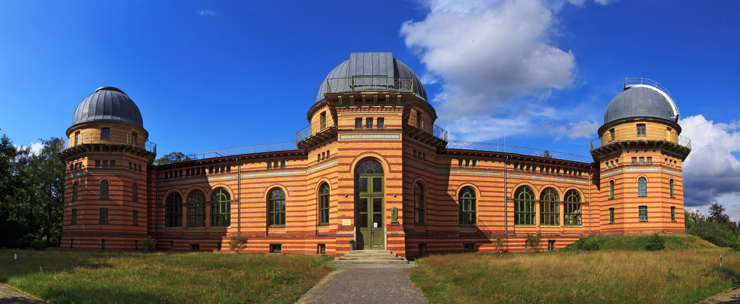 The Astrophysical Observatory in Potsdam, Germany. The building now hosts the Potsdam Institute for Climate Impact Research.